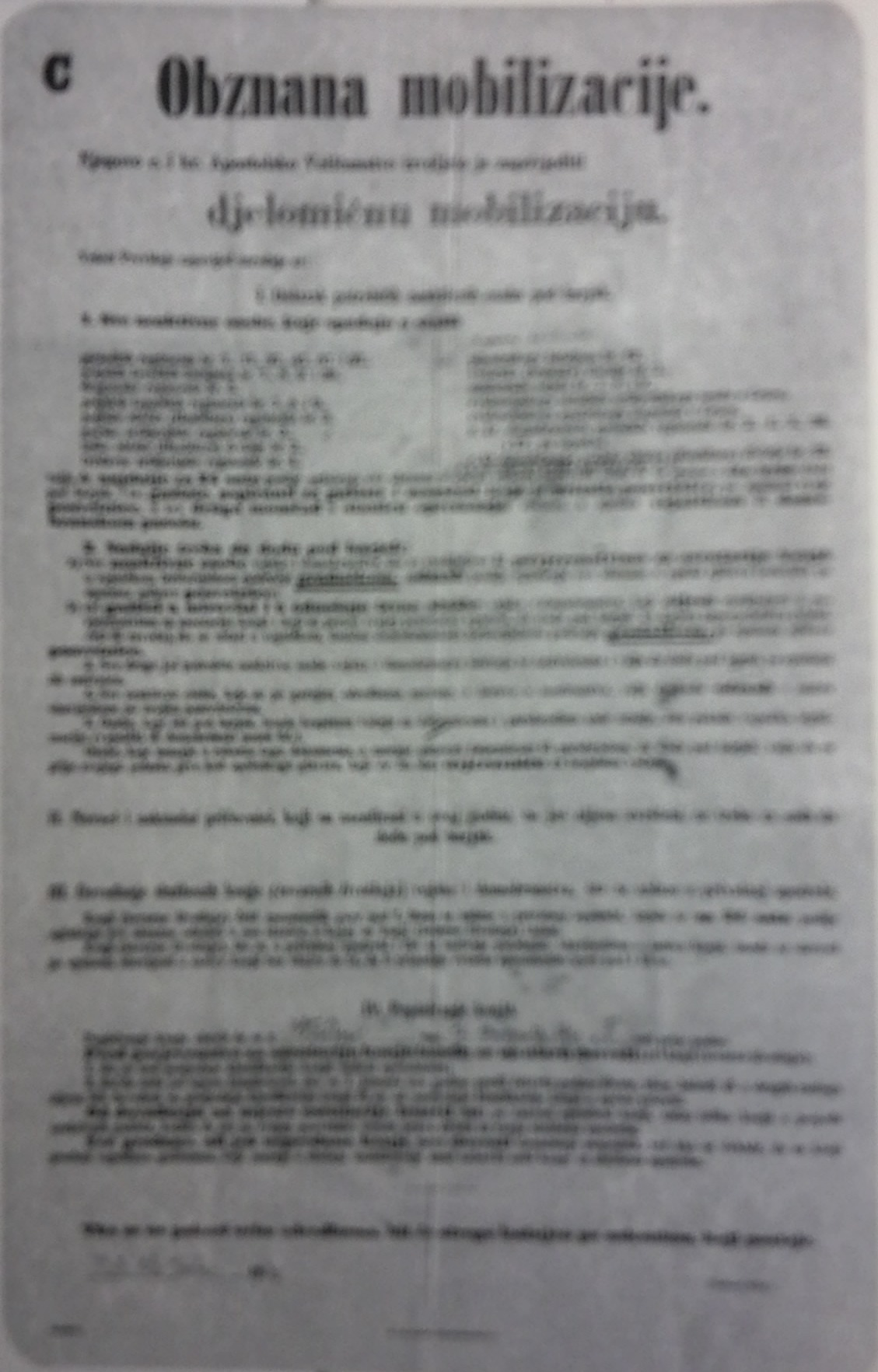 Mobilisation proclamation for Croatia in 1914